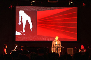 Still from the opera "Port Bou", Konzerthaus Berlin.